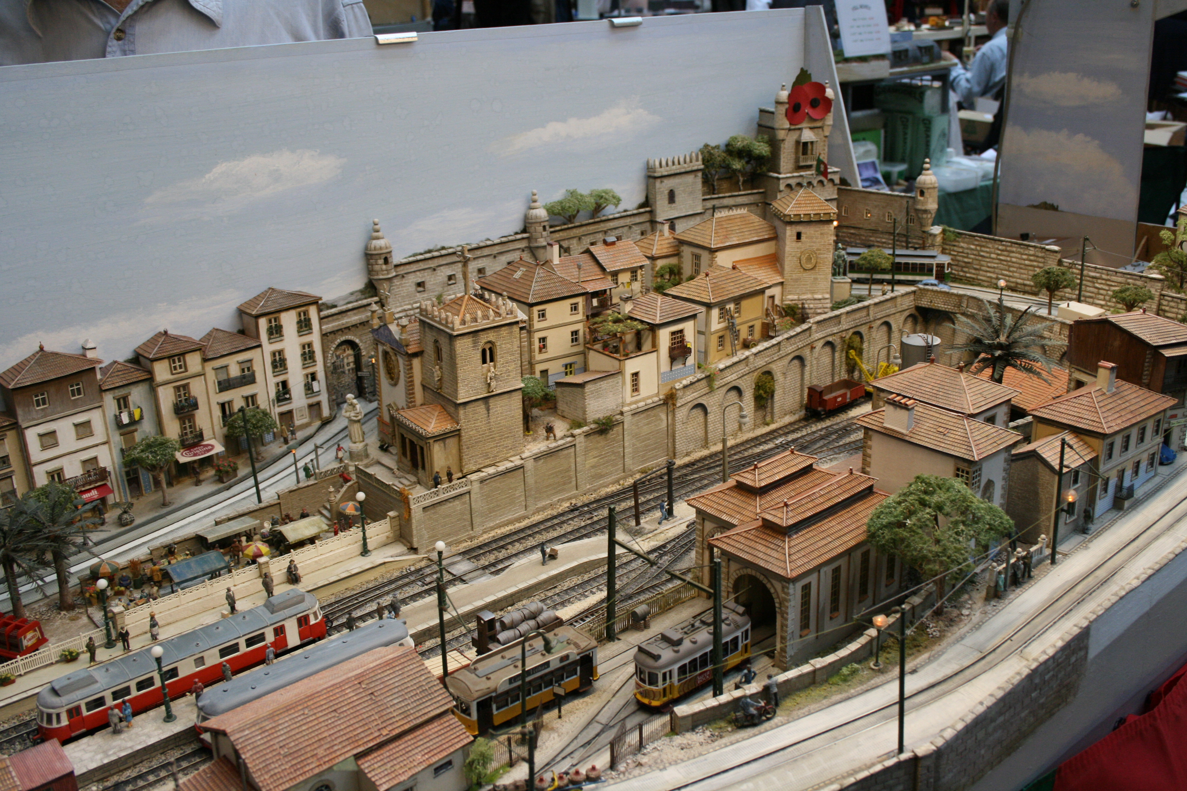 Layout by John Cannons. This is only a small part of a larger layout, there is a tram circuit around a metre gauge terminus station. This is another of those inspiring layouts that I've seen many photos of but never first hand until now.